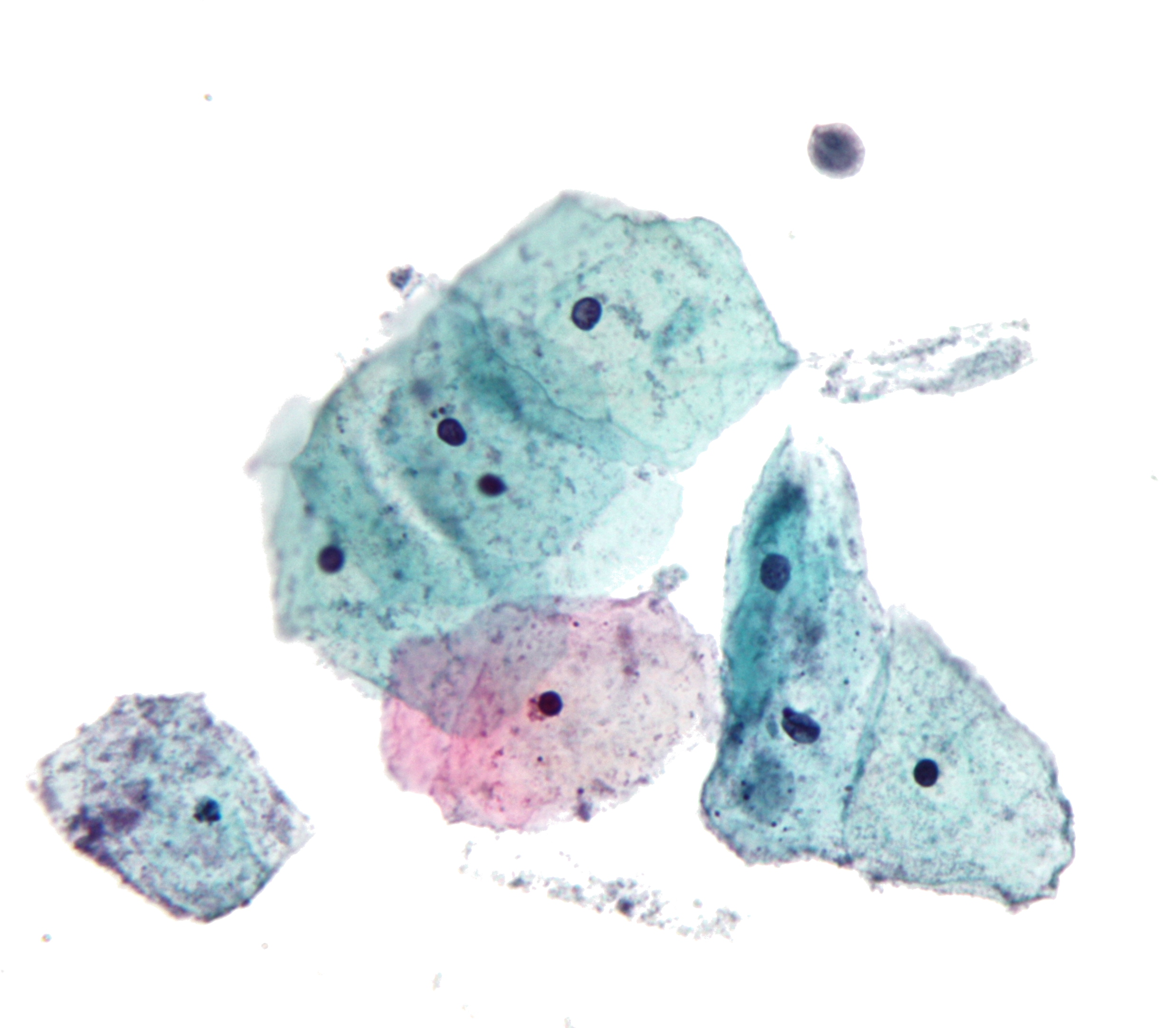 Micrograph showing Trichomoniasis (infection with Trichomonas vaginalis). Pap test. Pap stain. Trichomoniasis is frequently associated with abundant inflammatory cells (esp. neutrophils) - not seen in this image. See also Image:Low-grade sil and endocx.jpg Image:Low-grade squamous intraepithelial lesion.jpg Image:Adenocarcinoma on pap test 1.jpg